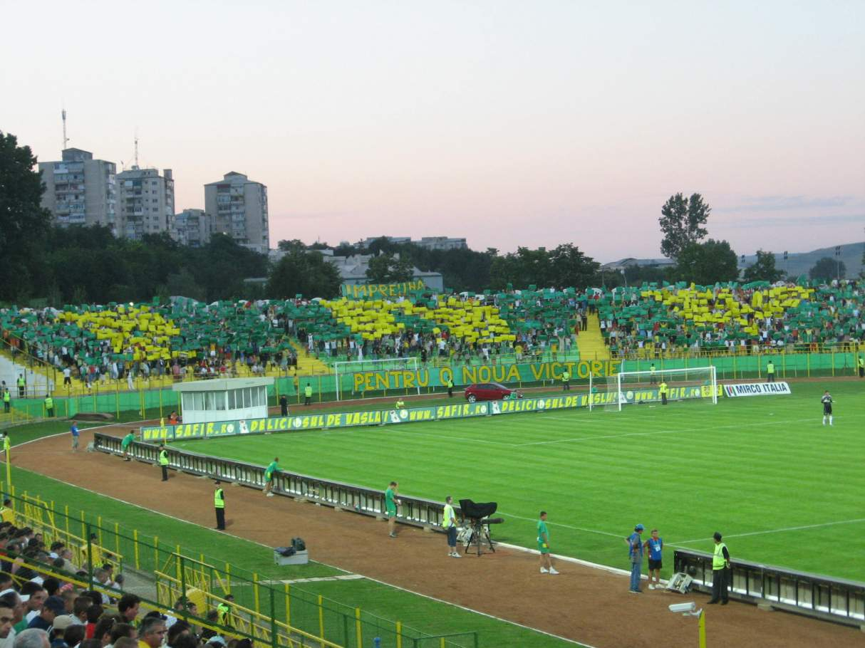 This file was made by me, since this is a picture of me from my latest album. The file is not available elsewhere online. I created the image and I release it into the public domain.